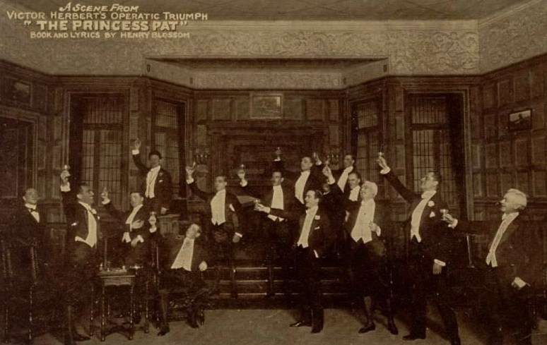 publicity postcard (cropped) for the Victor Herbert's operetta The Princess Pat (far right : Al Shean)